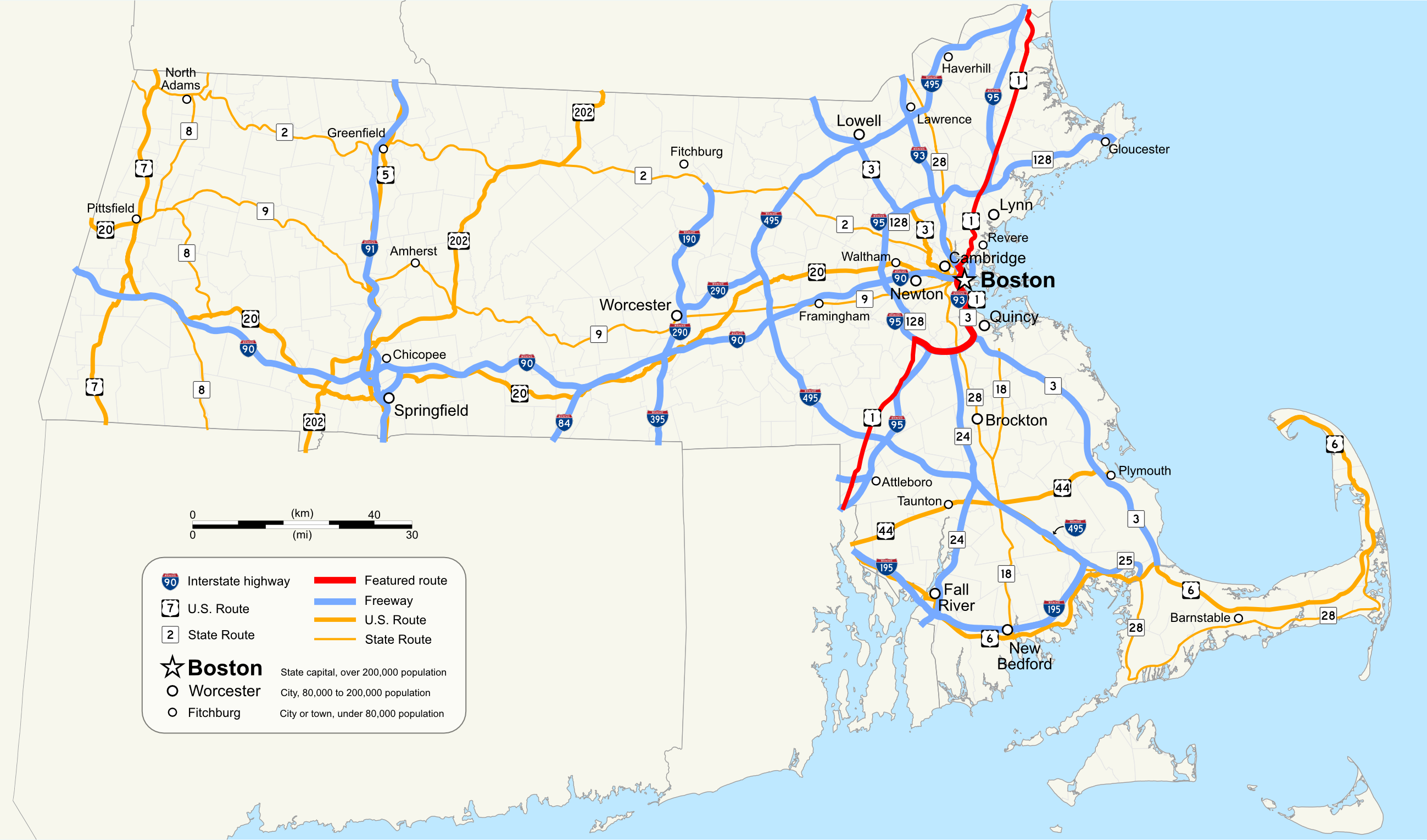 Map of major highways in Massachusetts with U.S. Route 1 highlighted in red